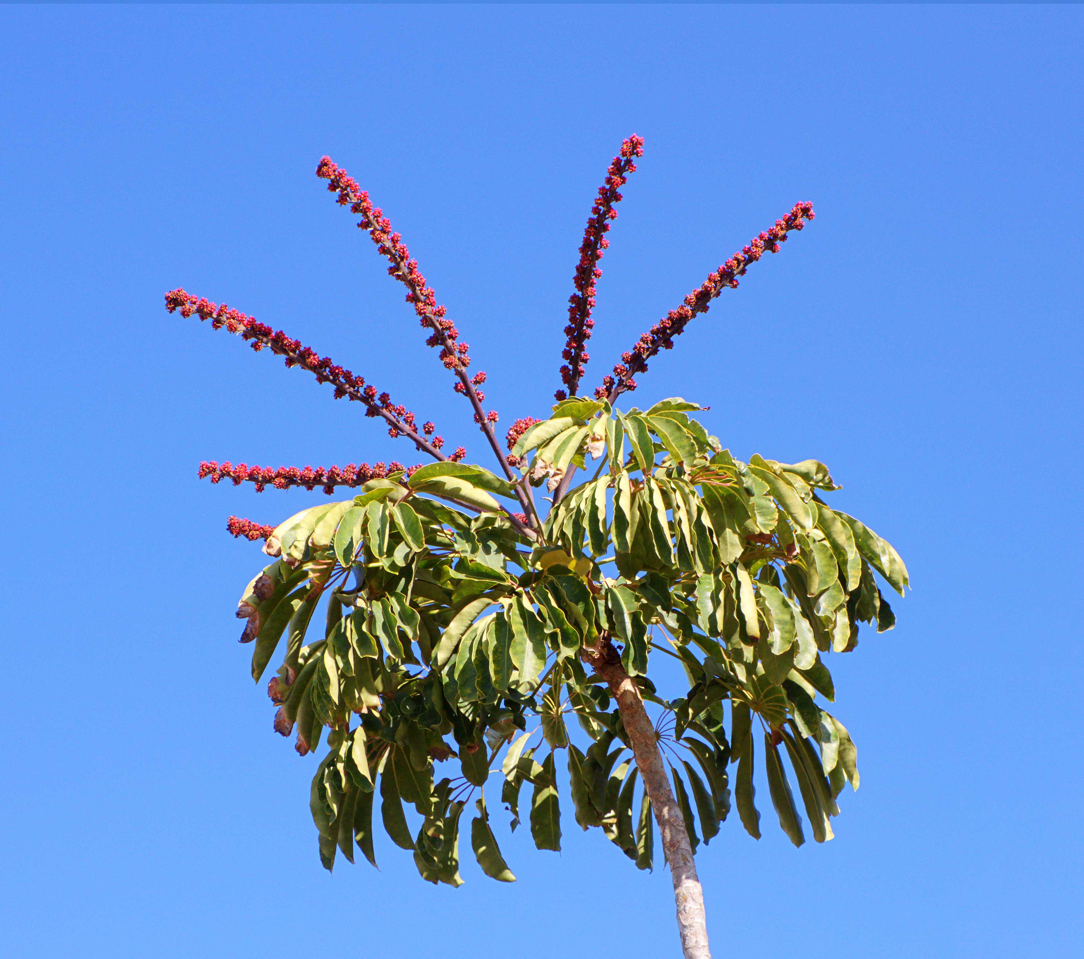 Umbrella tree, Octopus tree; Costa Teguise, Lanzarote, Spain.